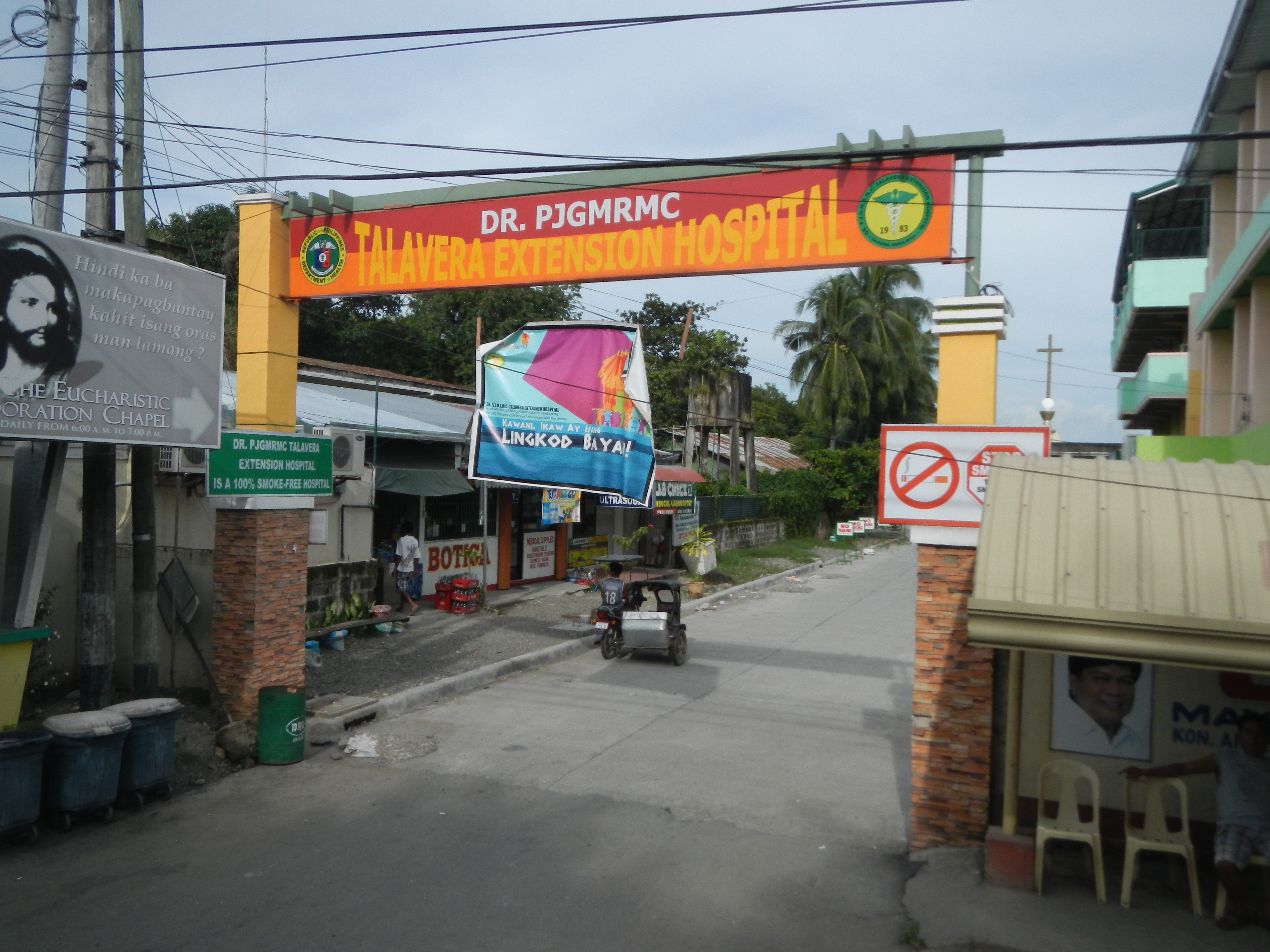 Dr. PJGMRCMC Extension Hospital, Talavera, Nueva Ecija